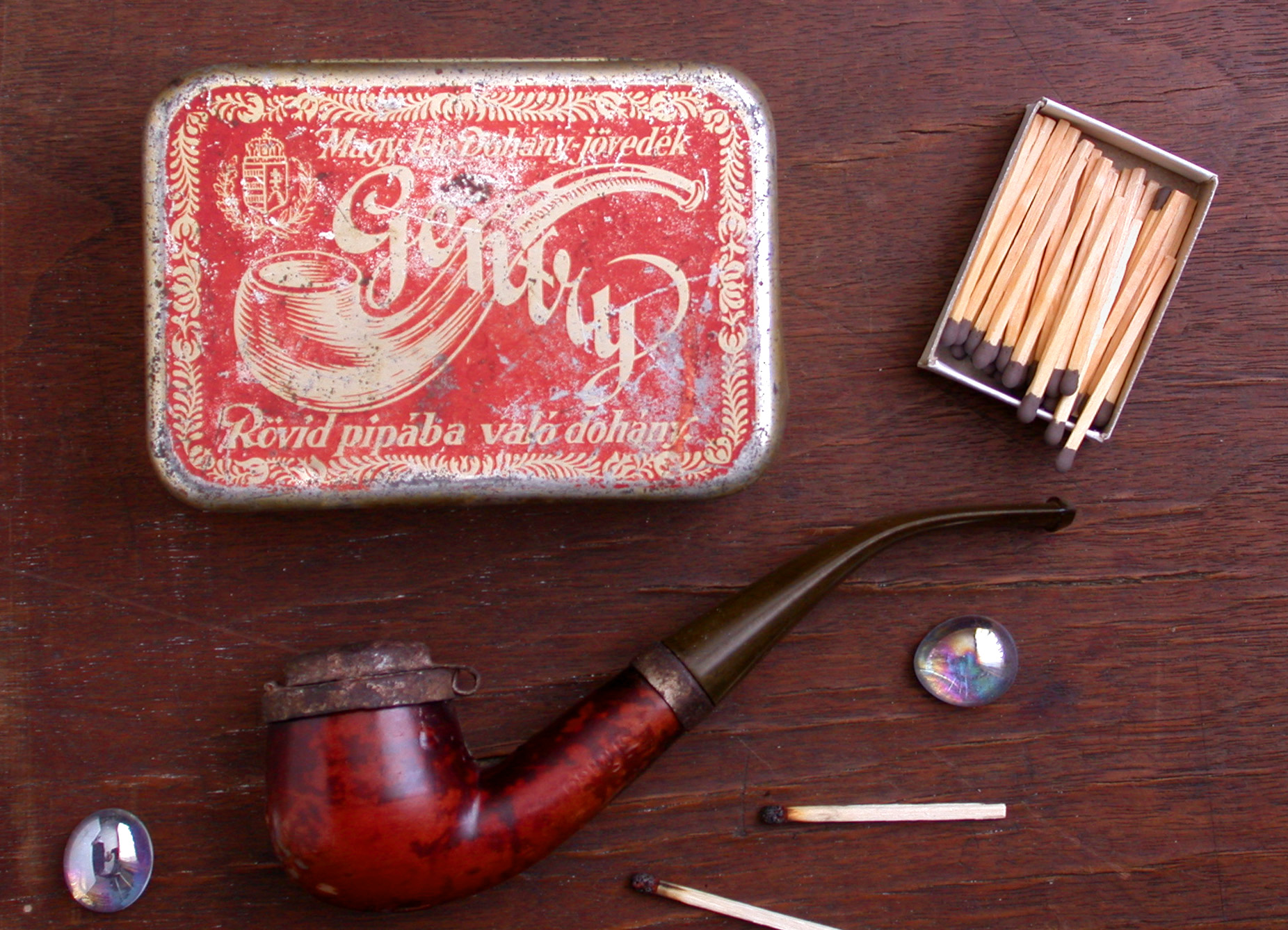 Old Pipe and "Gentry" tobacco-box from Hungary 1935